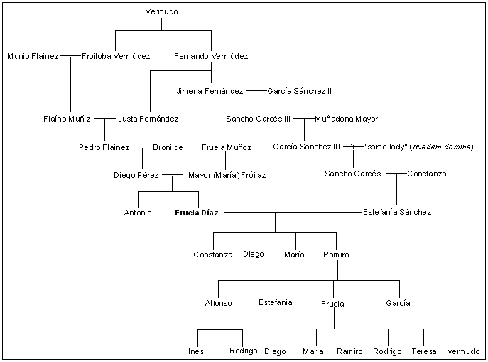 Family tree of the Flagínez showing Fruela Díaz's place, his relation to his wife, and his descendants down through the twelfth century.